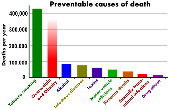 Preventable causes of death in the United States